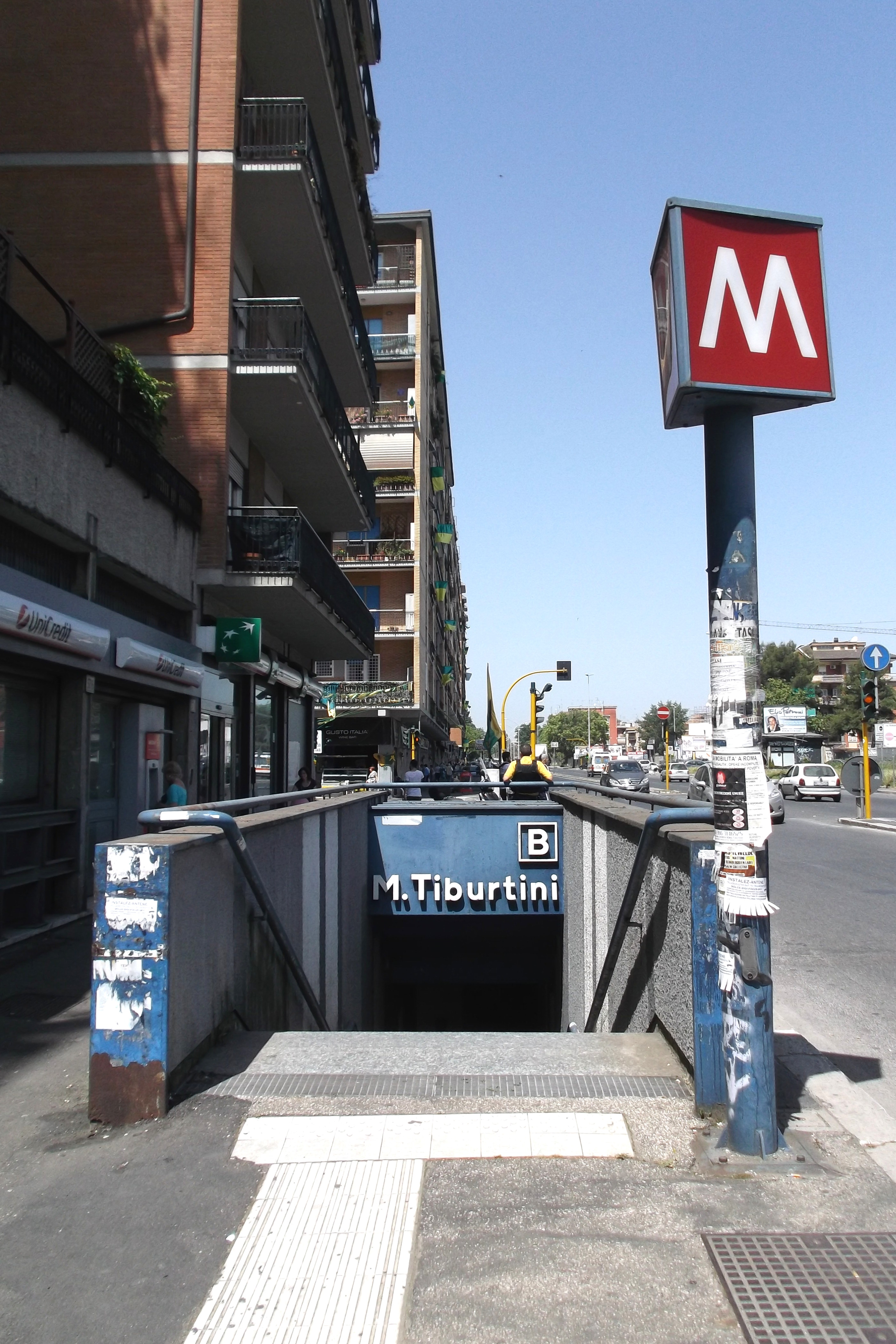 The underpass which leads to the main entrance of Metro B Monti Tiburtini station, Rome. The station has only one entrance and the showed underpass allows passengers get to it from the other side of the street.